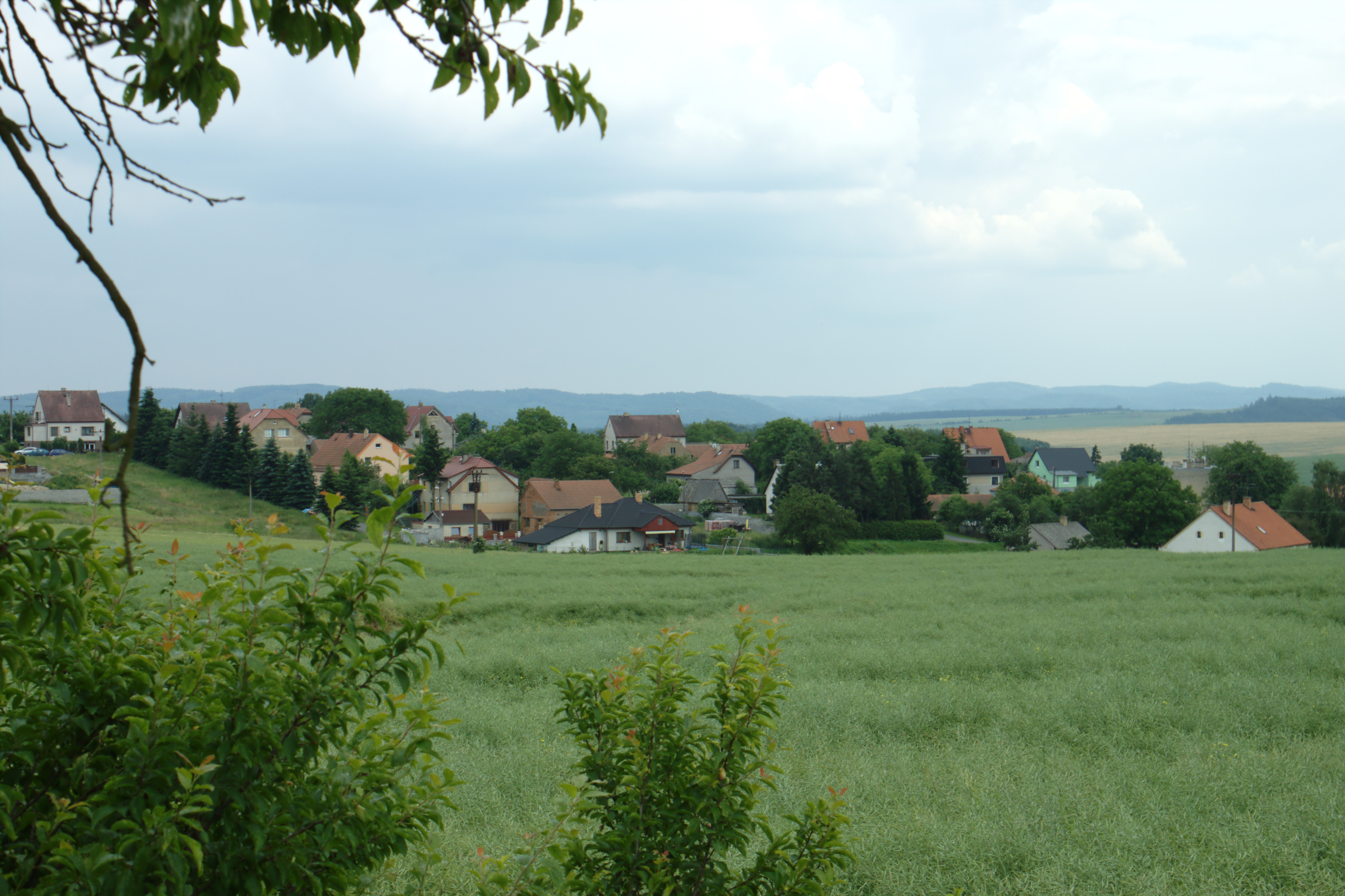 Town of Všetaty, Rakovník District, CZ